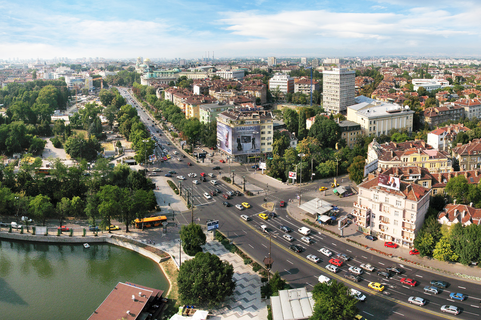 Orlov Most junction, where two of the most busy roads in Sofia intersect. Far back the golden domes of Alexander Nevski cathedral can be seen. Part of Ariana lake can be seen in the foreground, to the left Орлов мост. В далечината - Александър Невски. На преден план в ляво - част от езерото Ариана.